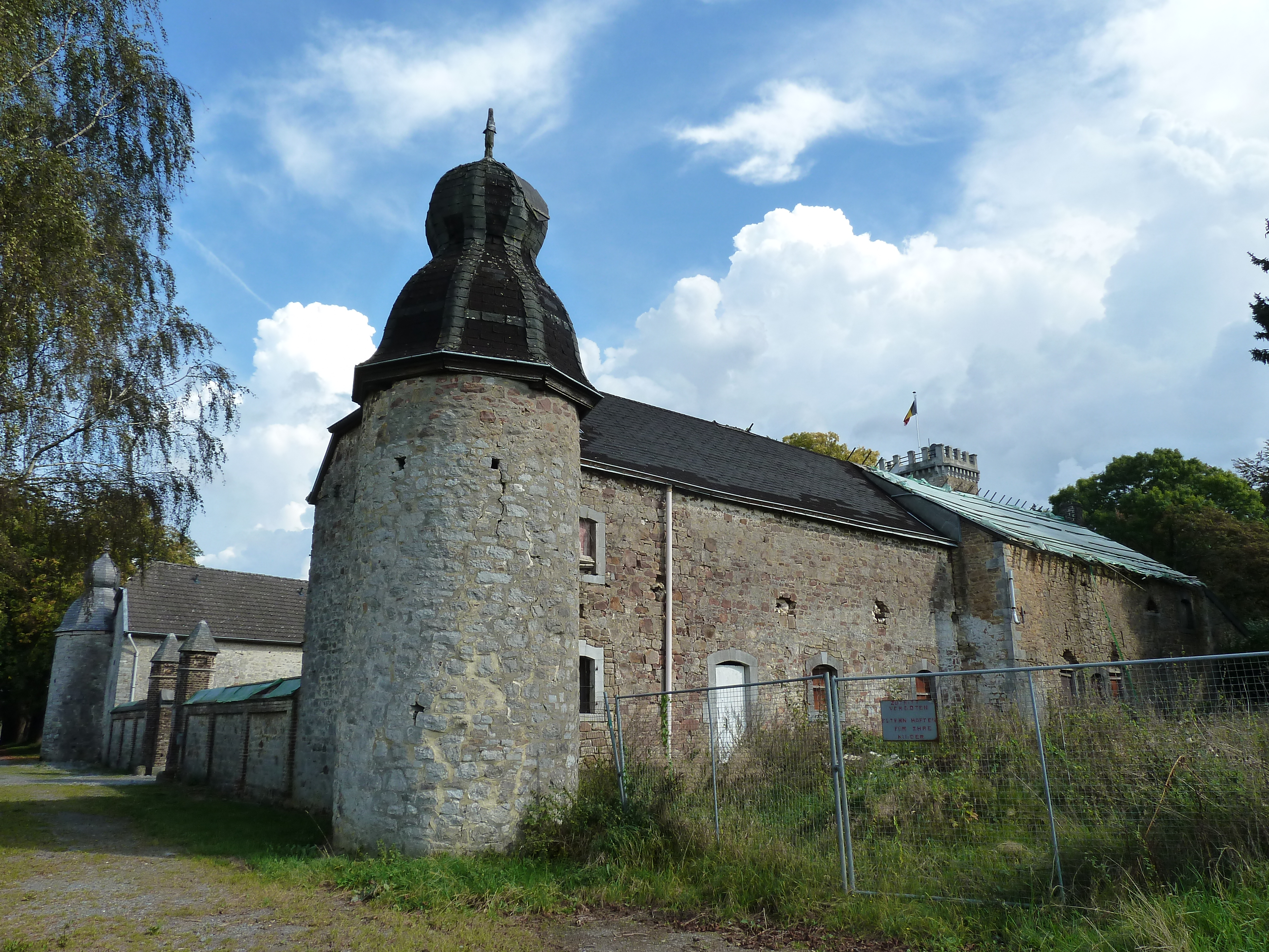 Castle Knoppenburg and surrounding area, Raeren, Belgium